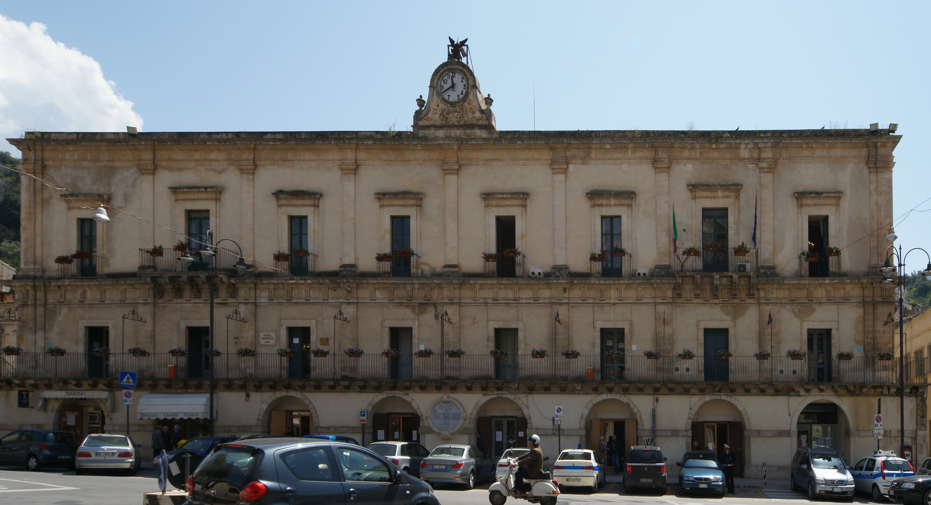 Modica: Palazzo Municipale